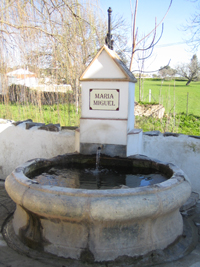 Fountain of María and Miguel.